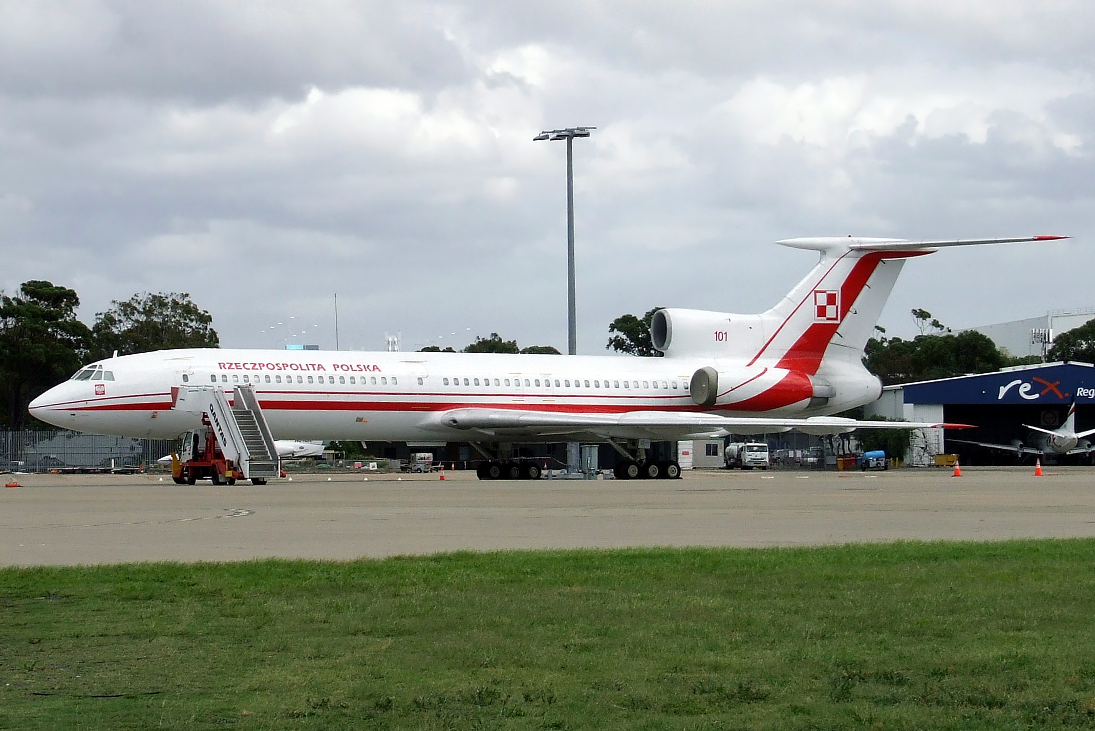 Polish Air Force Presidential transport Tupolev Tu-154 at Sydney Airport in Australia. Digital photo of 101 taken by YSSYguy on 27 March 2007 and uploaded for use in the Air transports of heads of state and government article. Changes in this version: White Balance Partially denoised